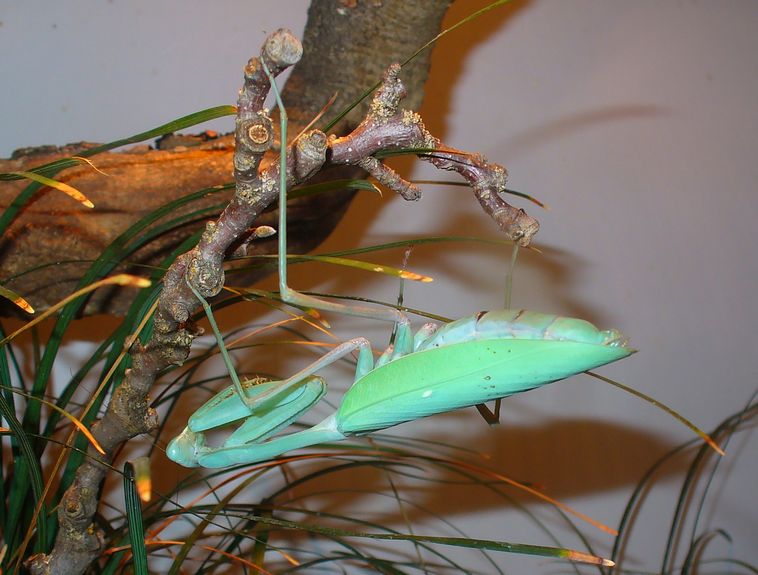 Giant Asian Mantis; Insektarium, Wilhelma Zoo; Stuttgart, Germany